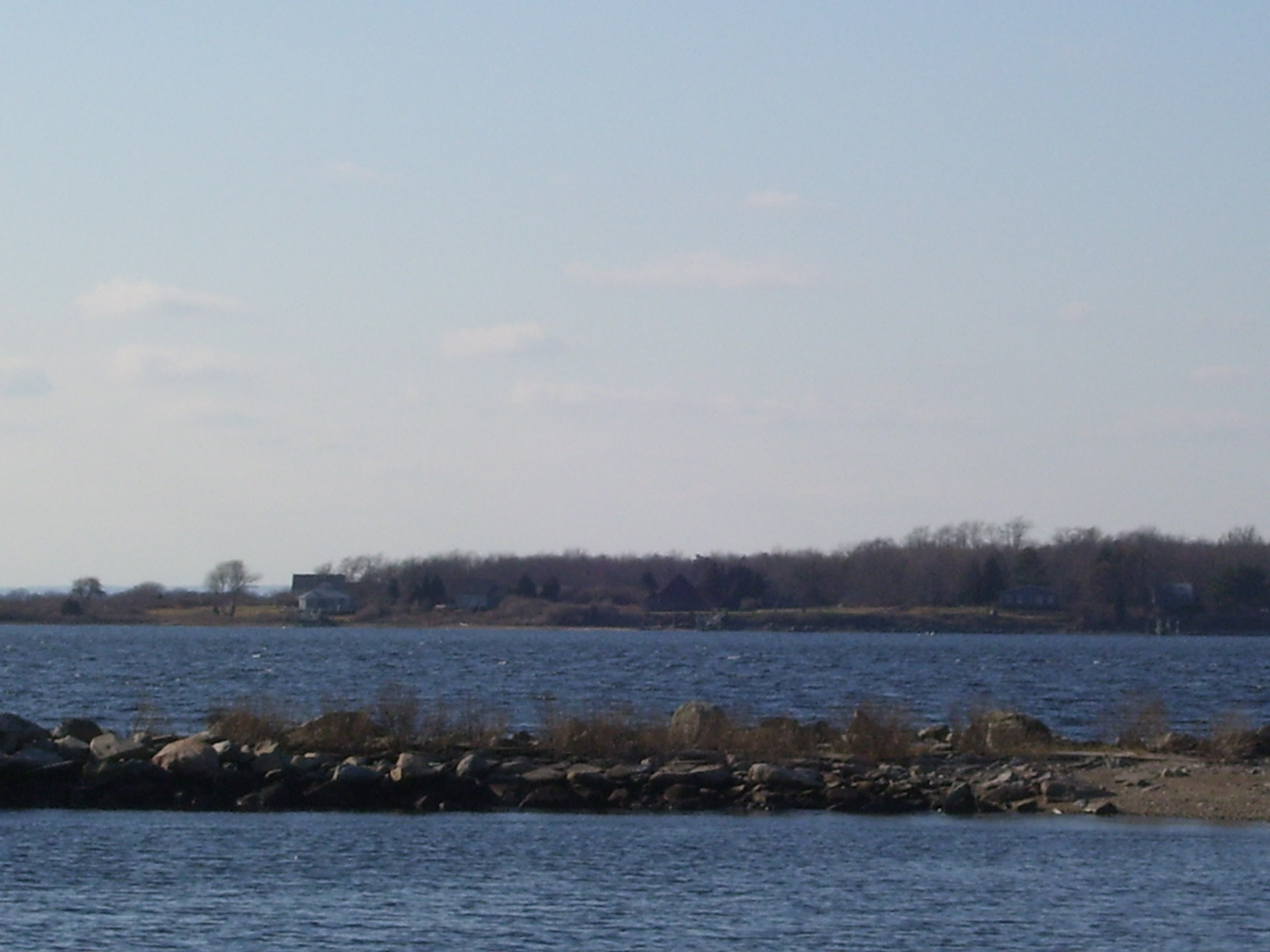 This is my 2008 photo of Hog Island in Rhode Island.